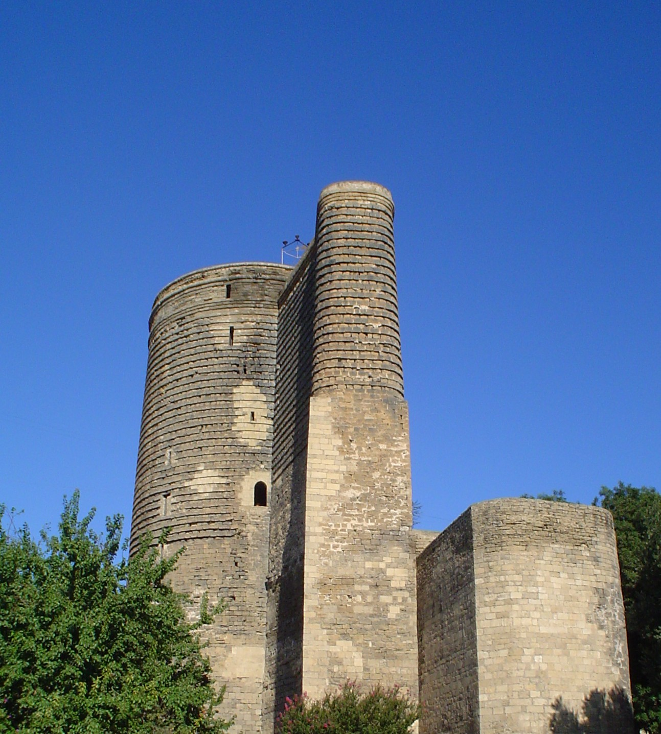 Maiden Tower in Baku.